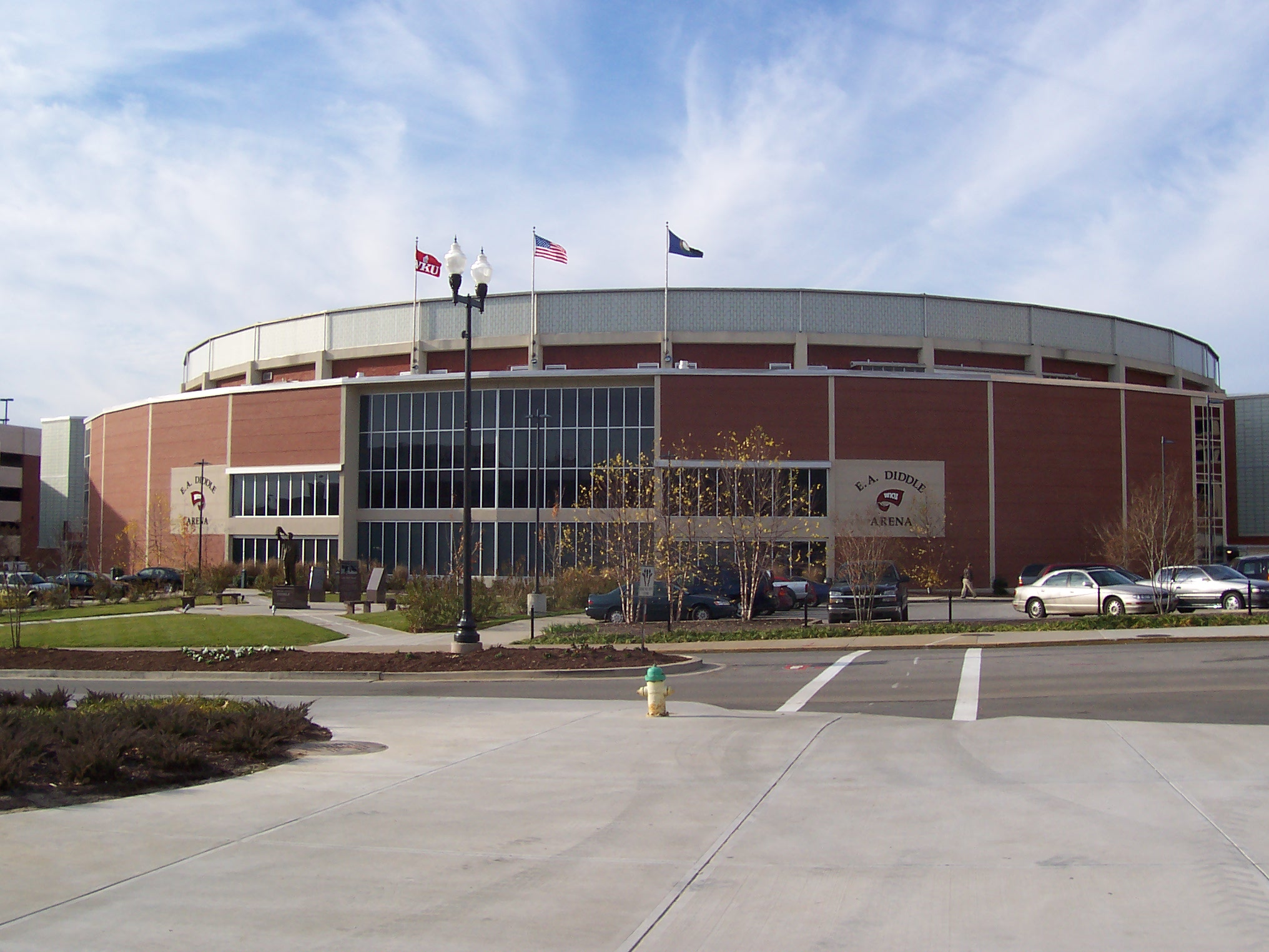 E.A. Diddle Arena, a multi-purpose use arena located on the campus of Western Kentucky University.